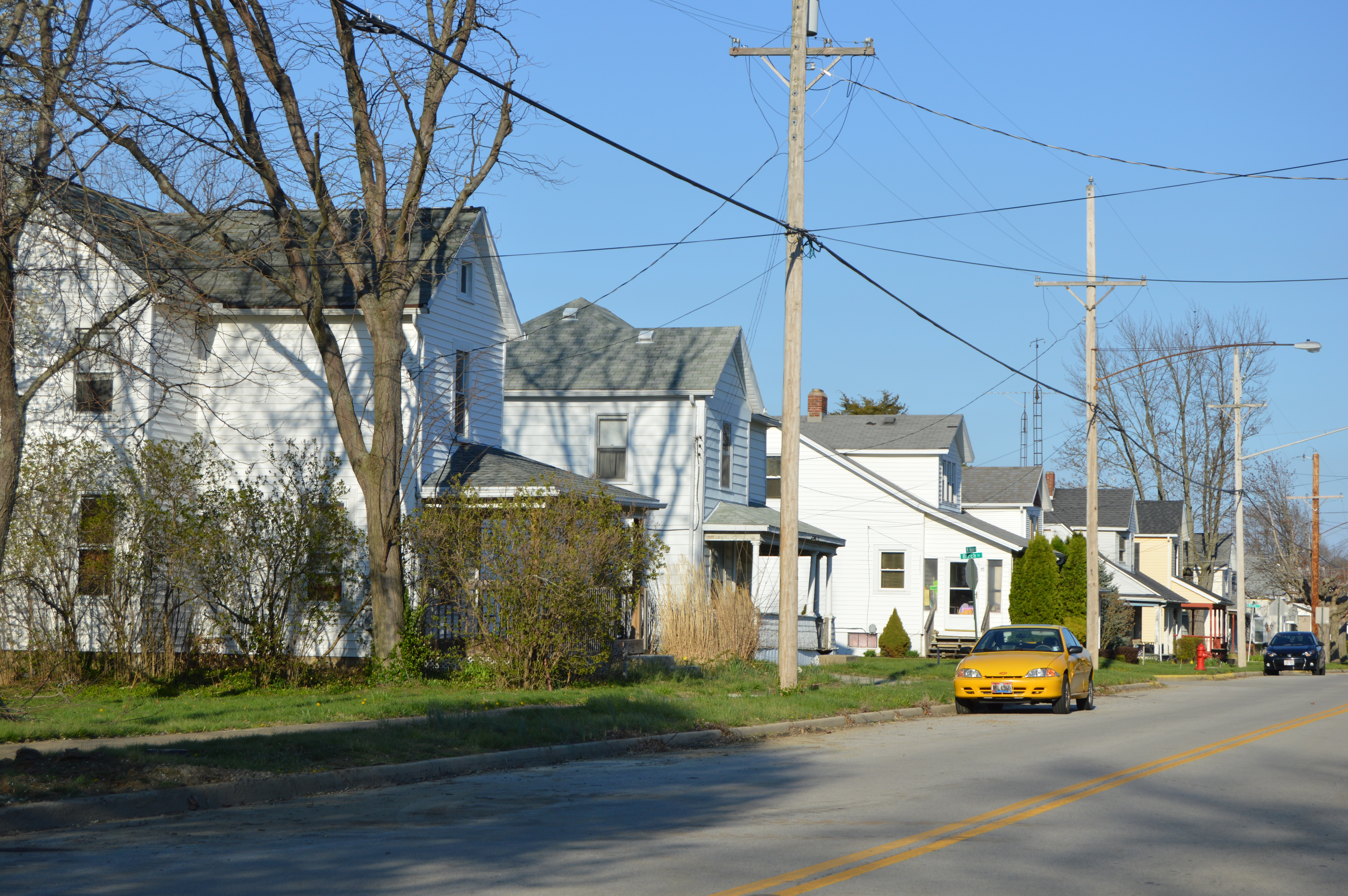 Houses on the northern side of Main Street, east of the Cherry Street intersection, in Phillipsburg, Ohio, United States.